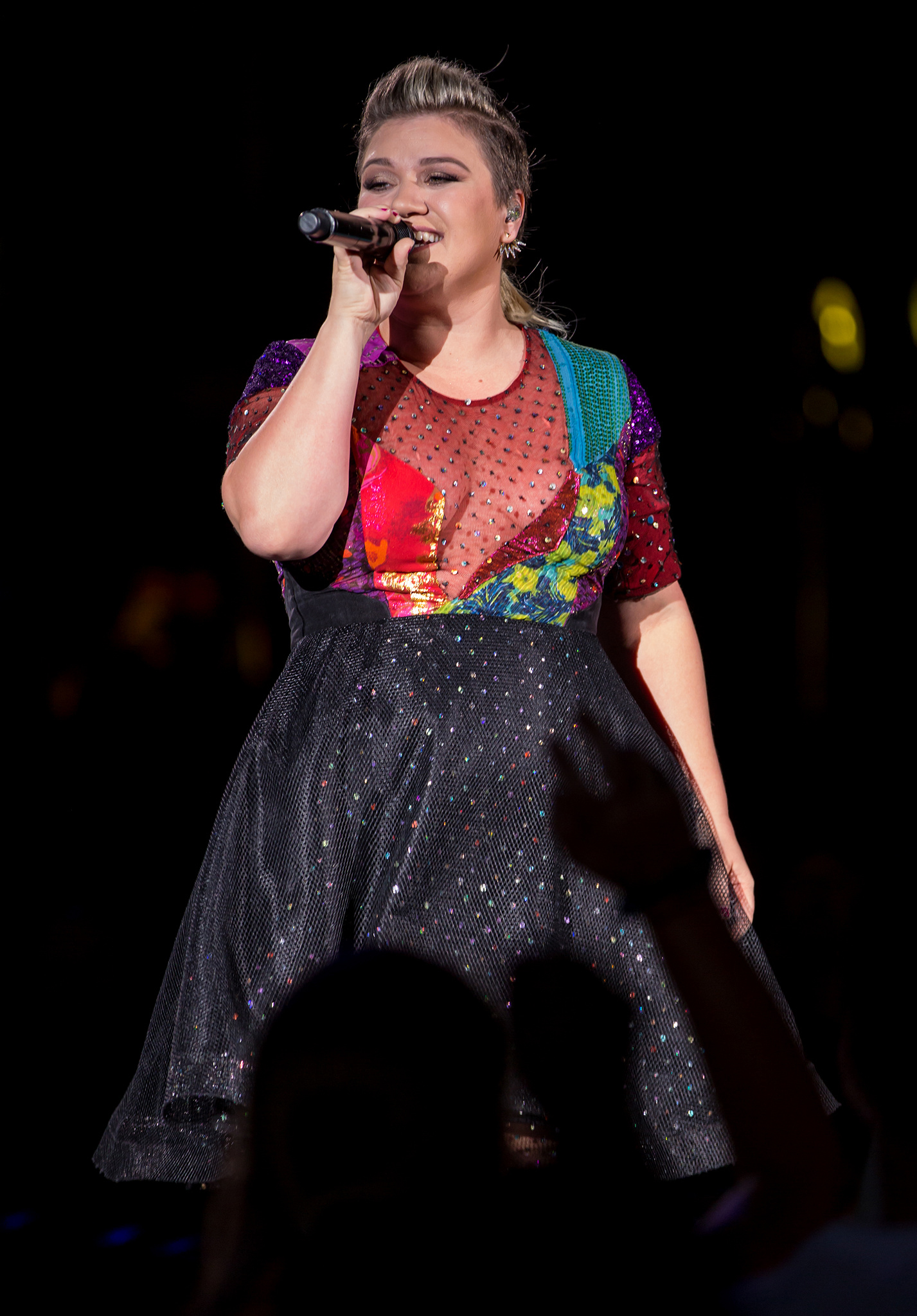 Kelly Clarkson performing on stage during the 2015 Piece By Piece Tour held at the Austin360 Amphitheater in Austin, Texas on August 29, 2015.